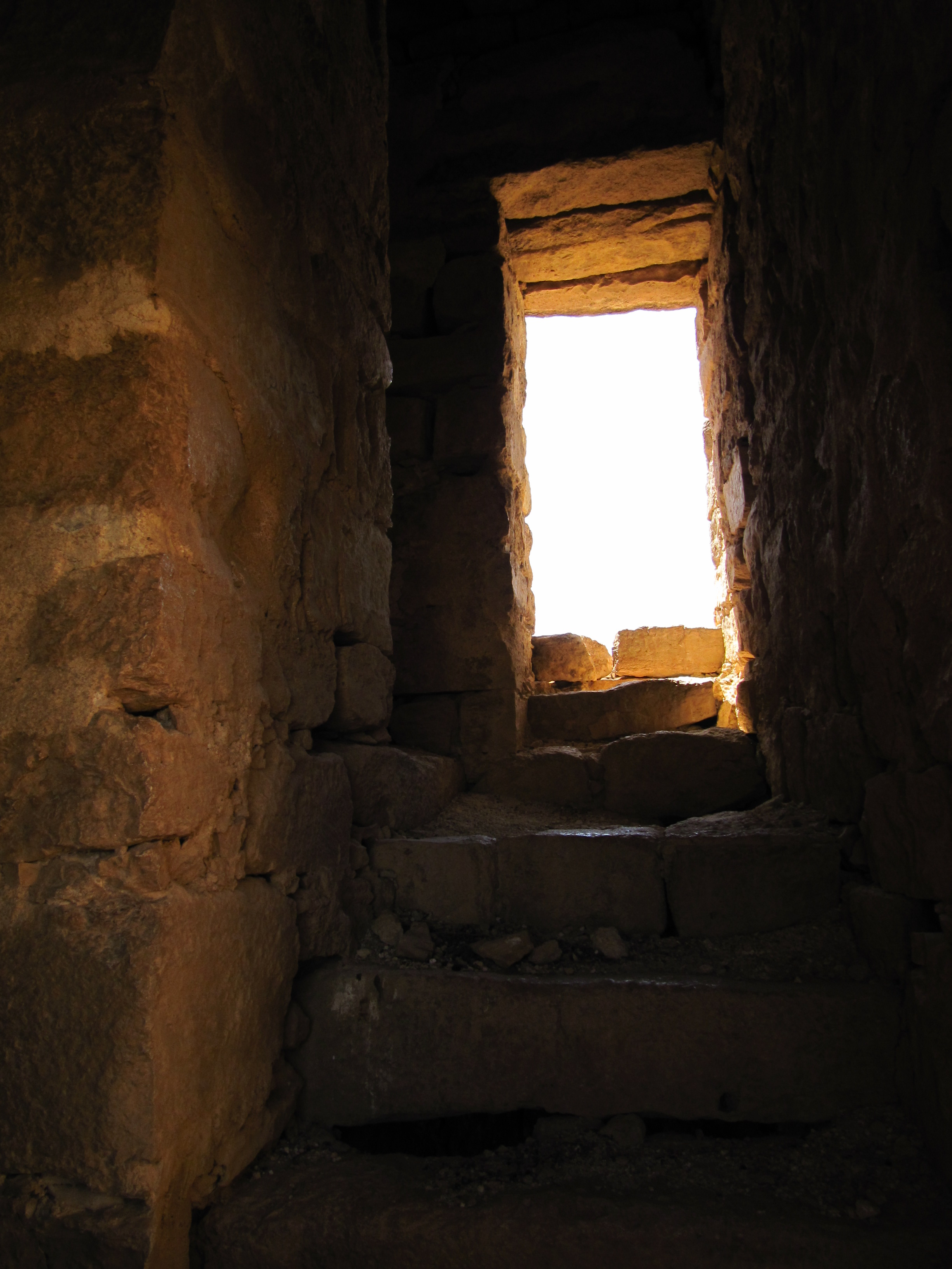 Stairs in one of the 4 towers of the roman Castellum of Qasr Bshir